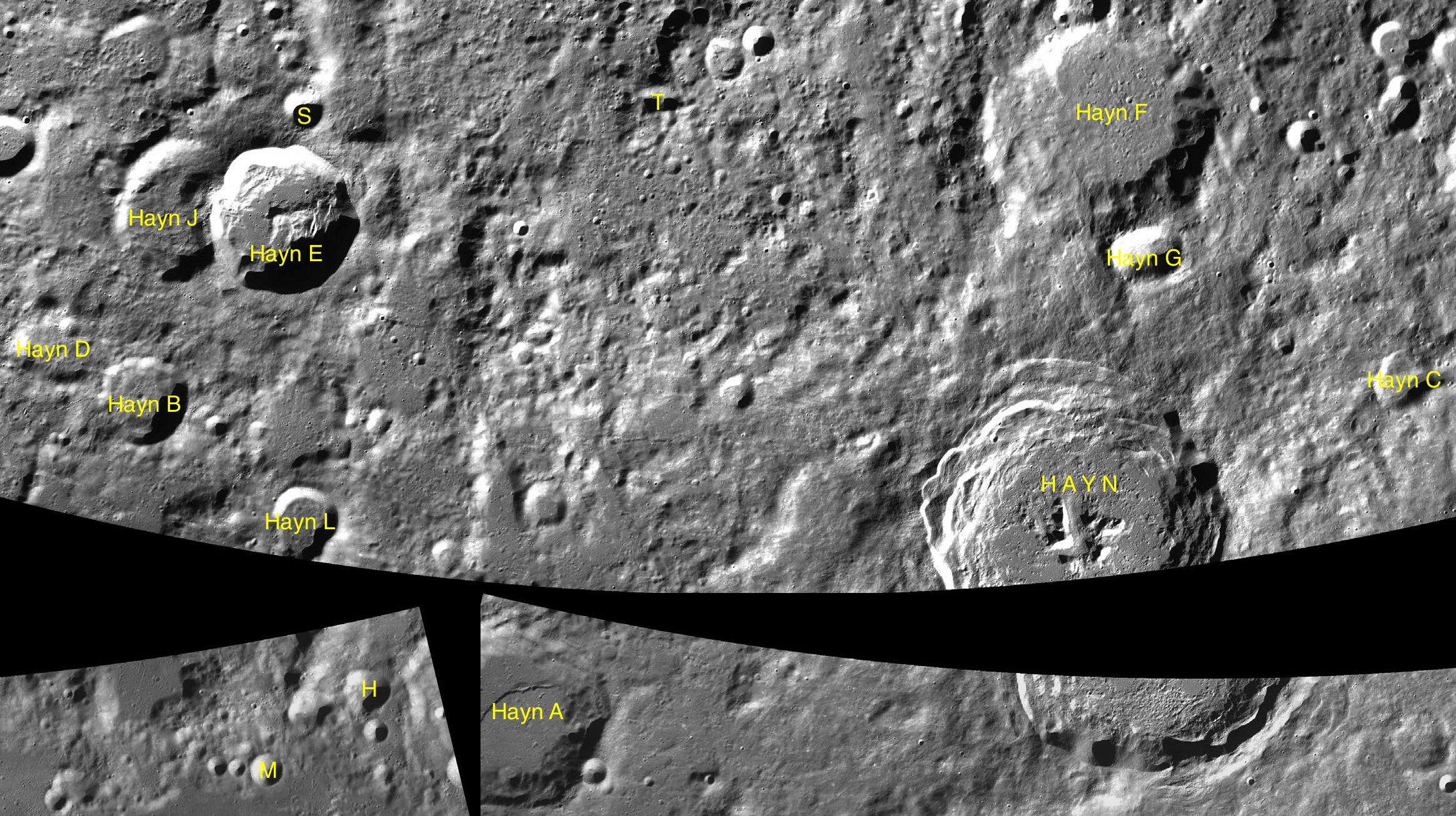 Parts of the chart LAC-5, LAC-14, LAC-15.